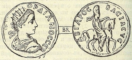 Coin of King Abgar of Osroene. Illustration from Orthodox Theological Encyclopedia (1900—1911)